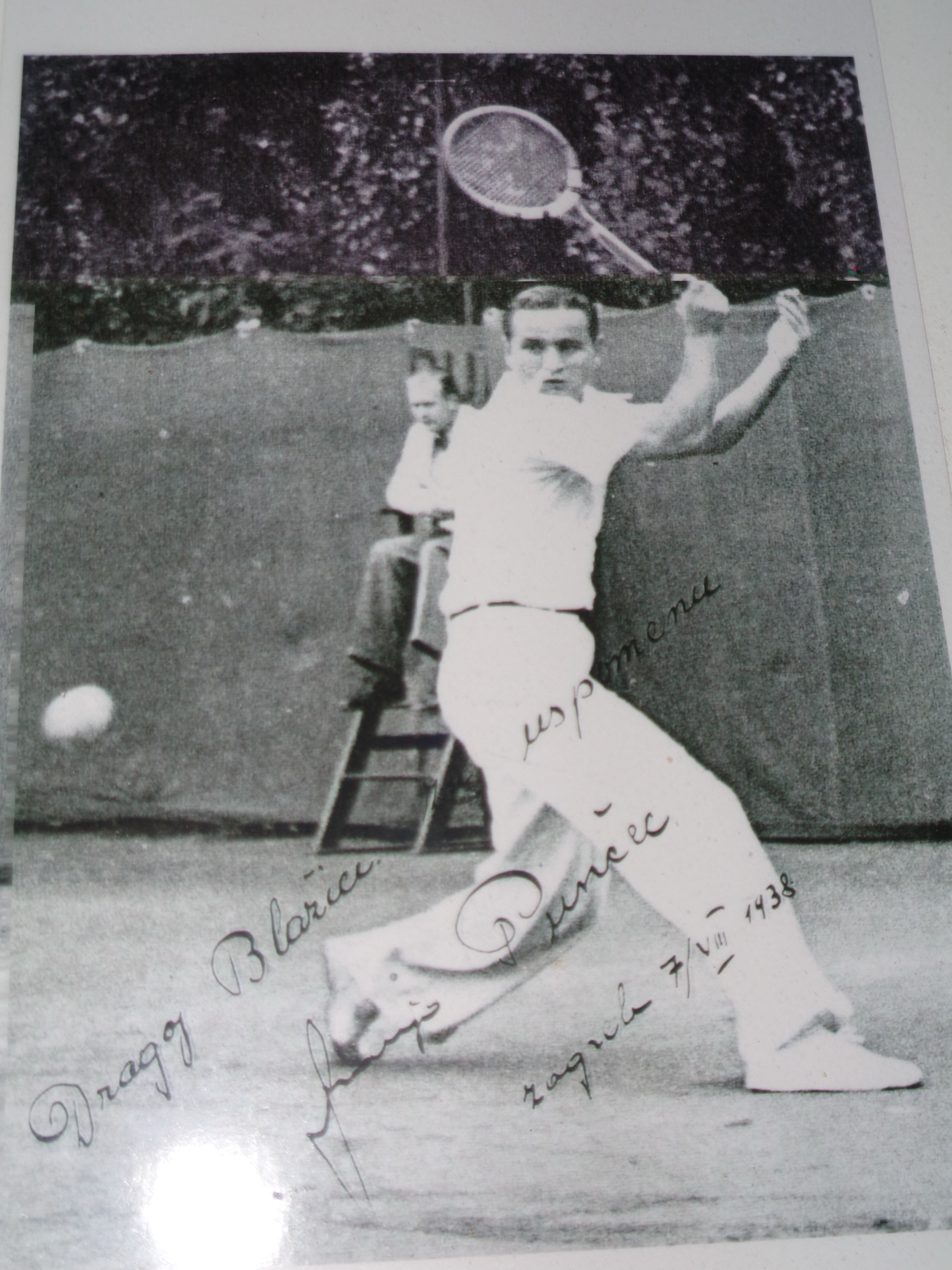 Franjo Punčec (1913-1985), top-level Croatian tennis player, and his signature